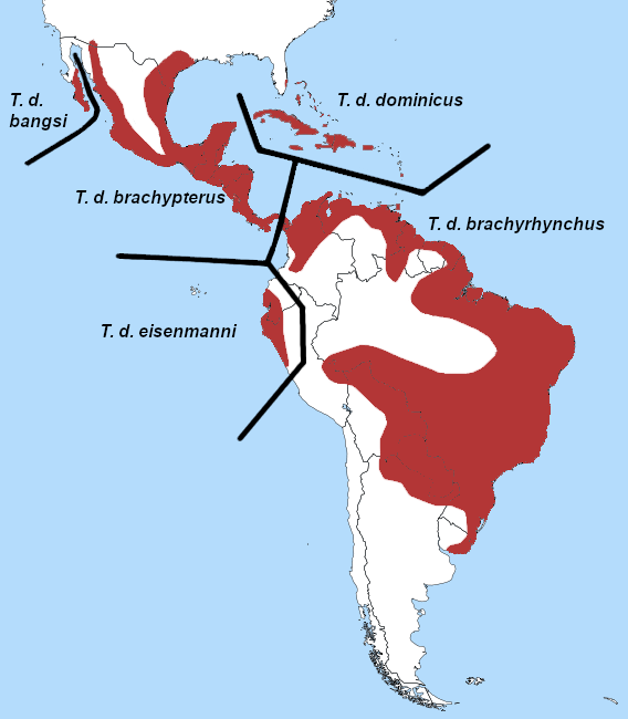 The Distribution of the Least Grebe